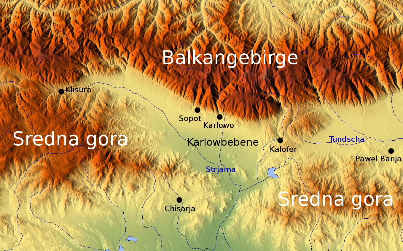 westliches rosental; Karlowoebene; BG: Карловско поле; Bulgaria; Maps of Bulgaria; from [1]; picture version without text see: Image:Rosental West.png